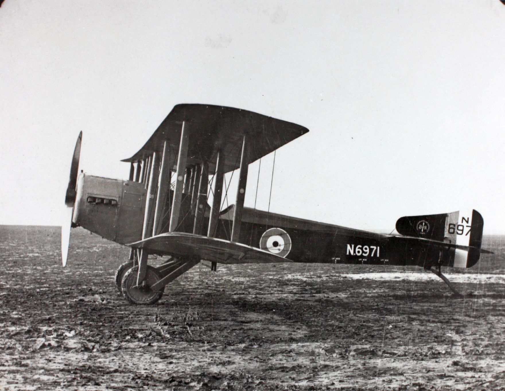 Sopwith Cuckoo British First World War torpedo bomber